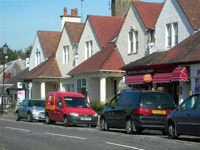 Alloway Village Post Office At the time of taking this shot, the future of these small post offices was under review but no decisions had been announced.